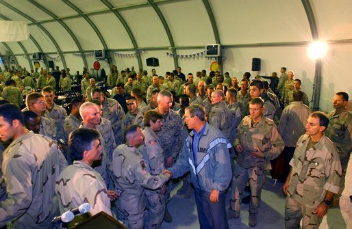 To show his support for America’s troops, President Bush makes a surprise visit to Iraq and shares Thanksgiving Dinner with U.S. troops at the Bob Hope Dining Facility, Baghdad, Iraq, November 27, 2003. (White House photo)